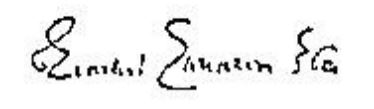 Autograph of Gujarati Poet Nhanala Dalparataram Kavi